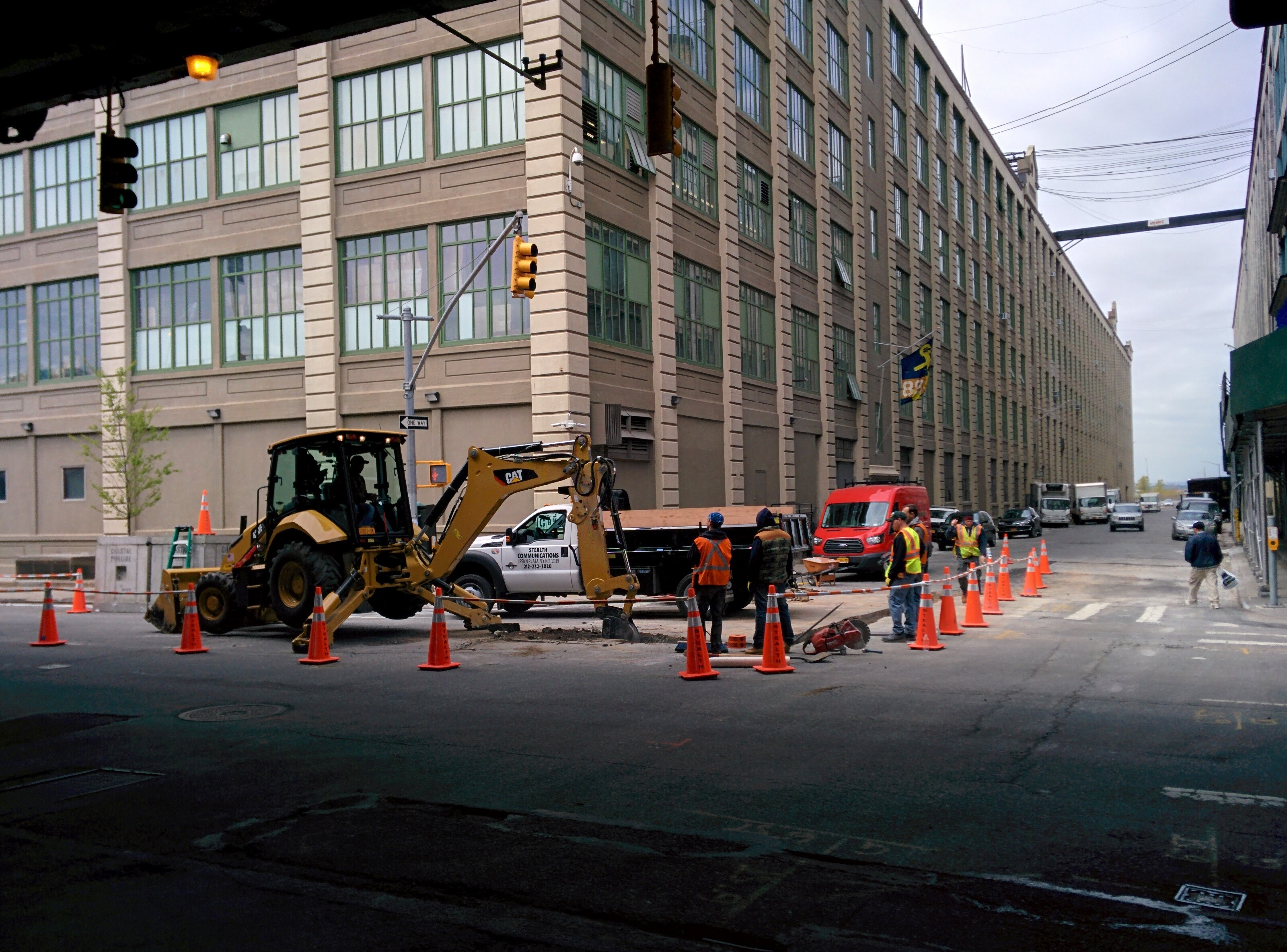 Construction of new underground fiber-optic system at Bush Terminal (Industry City) Brooklyn.